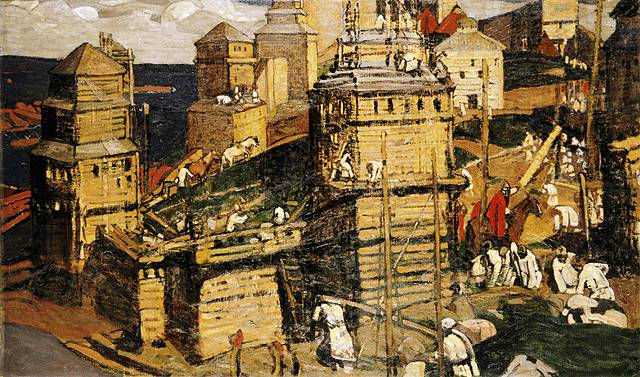 Nicholas Roerich "Ancient Ruthenians build a town"